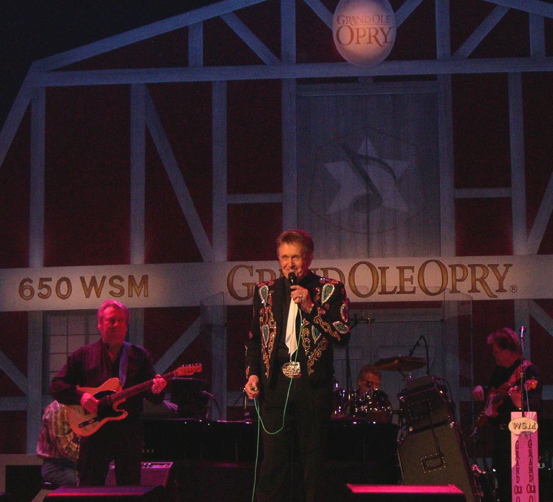 American singer Bill Anderson at the Grand Ole Opry.Bill Anderson